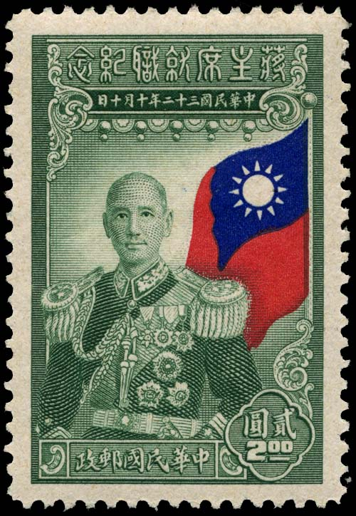 Postal stamp of the Republic of China, commemorating the taking of office by Chiang Kai-shek 蔣介石 on 10 October 1943. The stamp is a steel engraving depicting Chiang Kai-shek in front of the Flag of the Republic of China. The inscription reads 蔣主席就職紀念 from right to left in small Seal Script which translates to „commemoration of the inauguration of chairman Chiang“. The line below states the date of 中華民國32年10月10日, that is ROC 10 October 32 or 10 October 1943. The denomination of the stamp is 貳圓, that is two Yuan. Issuer is 中華民國郵政, the Post of the Republic of China.